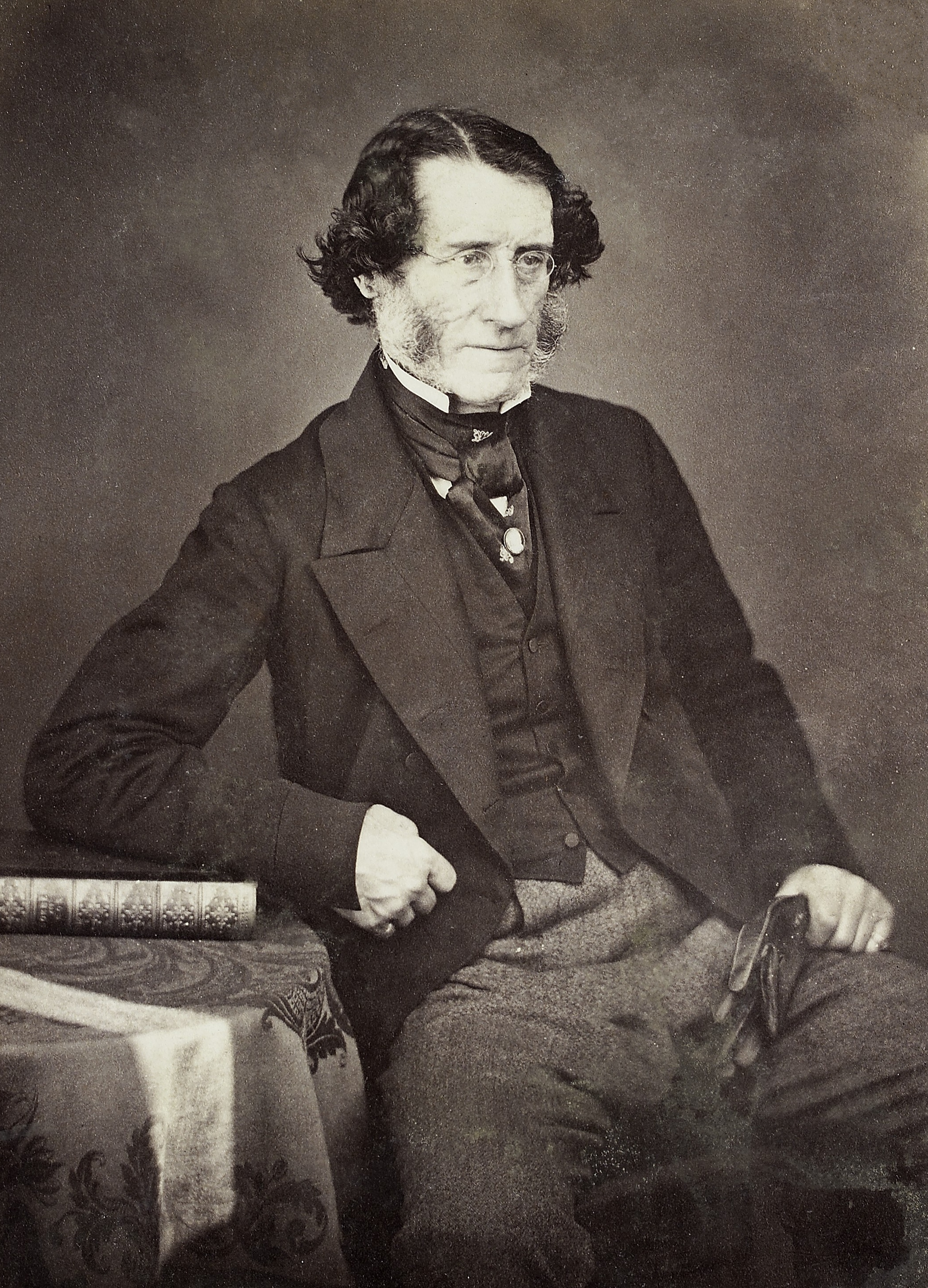 Portrait of B. G. Babington MBFRS, later on the physicians to Guy's Hospital, a member of the St. Albans Medical Club